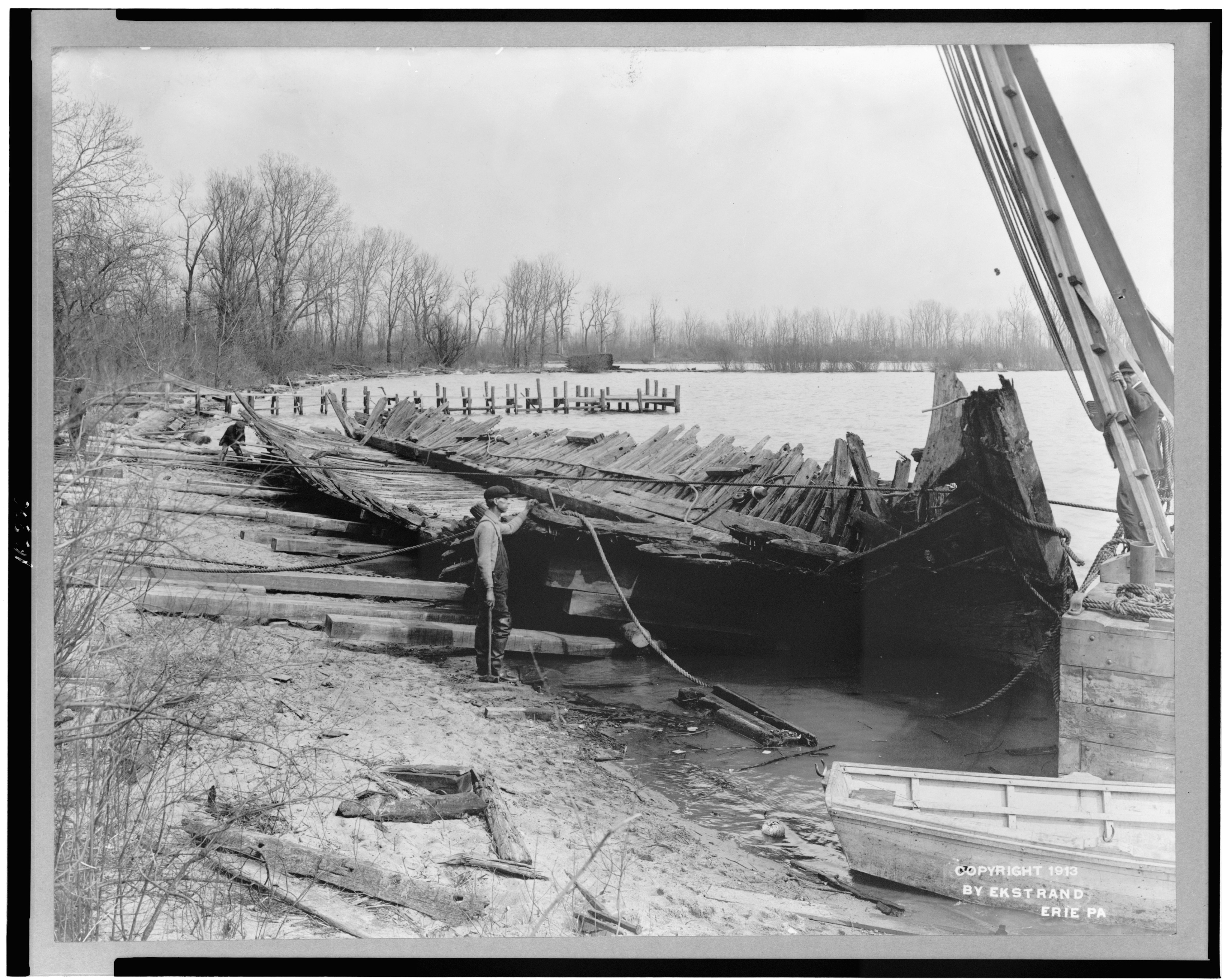 Title: Remains at water's edge of U.S. Brig Niagara, flagship of Commodore Perry during the 1813 Battle of Lake Erie Abstract/medium: 1 photographic print.